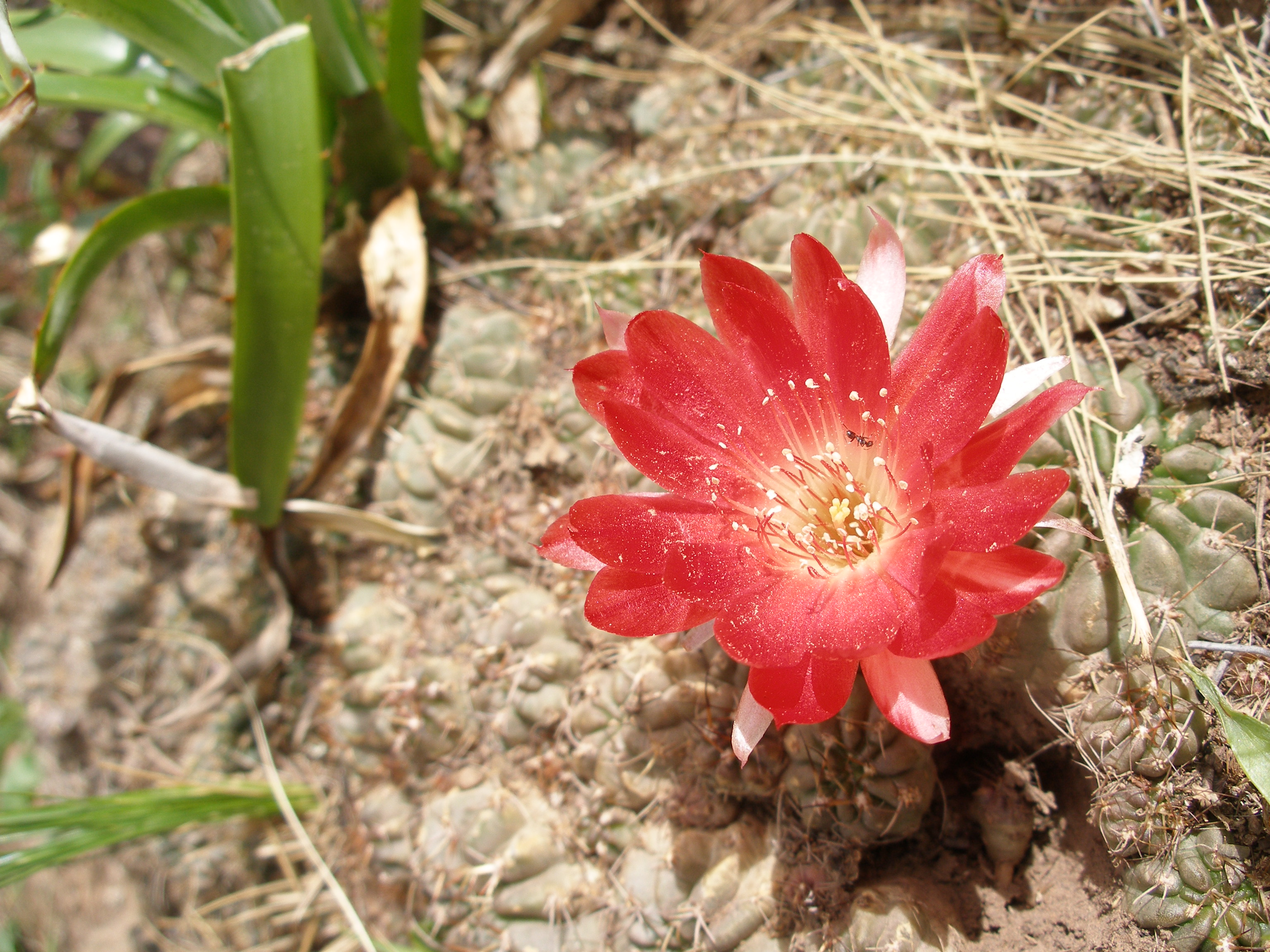 I'm not good at identifying flowers, but this one seemed to be growing from a succulent plant almost buried under the topsoil.